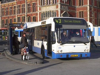 Berkhof Jonckheere 12 city bus (#184, reg. BH-XL-35) with DAF SB250 chassis in Amsterdam, Netherlands. Built 1999, Gemeentevervoerbedrijf (GVB) operator.